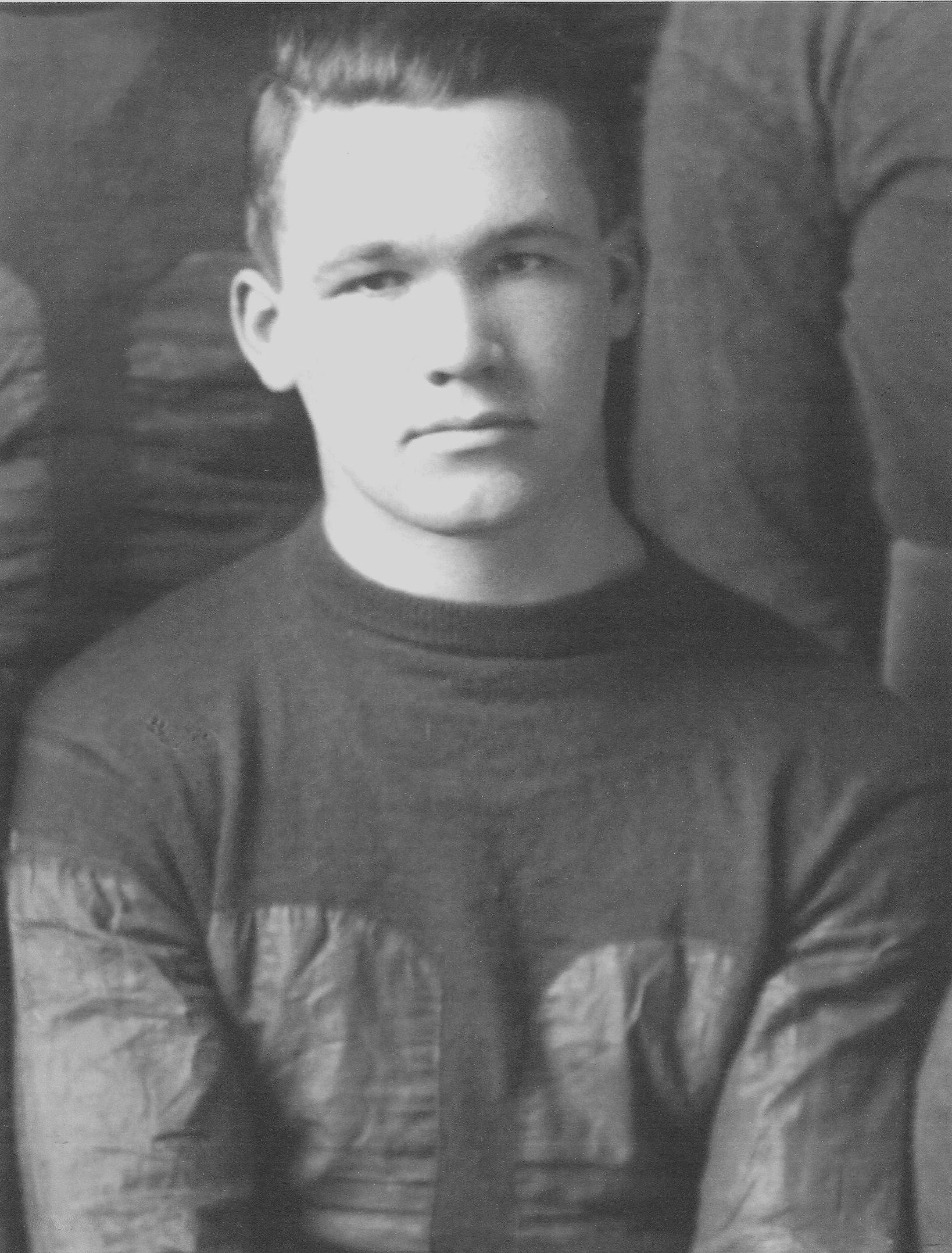 Photograph of Cliff Sparks